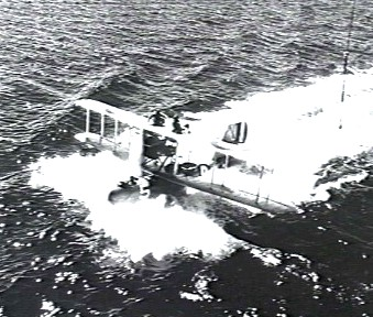 Australia, 1926-1935. Supermarine Seagull III A9-5 of No. 101 Fleet Co-operation Flight RAAF which has just landed on the water and is about to be hoisted aboard the seaplane carrier HMAS Albatross (not in view). The cable from the ship's crane appears at right. Two of the seaplane's three crewmen have clambered onto the top wing of the aircraft to grasp the cable and attach it to the aircraft, so that it can be hoisted aboard the vessel. (Donor R. Johnson)